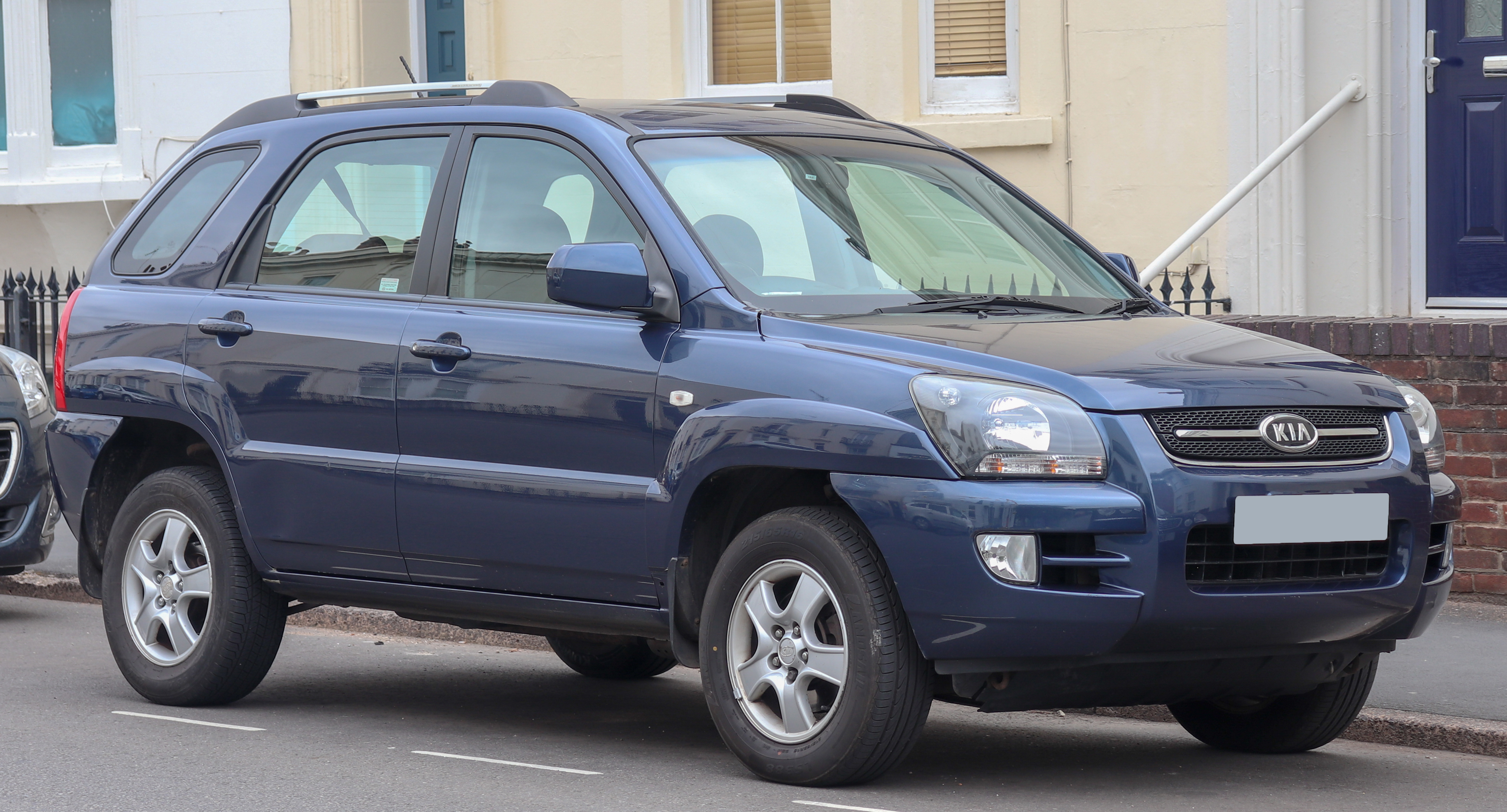 2008 Kia Sportage XE CRDi 2WD Automatic 2.0 Front Taken in Leamington Spa